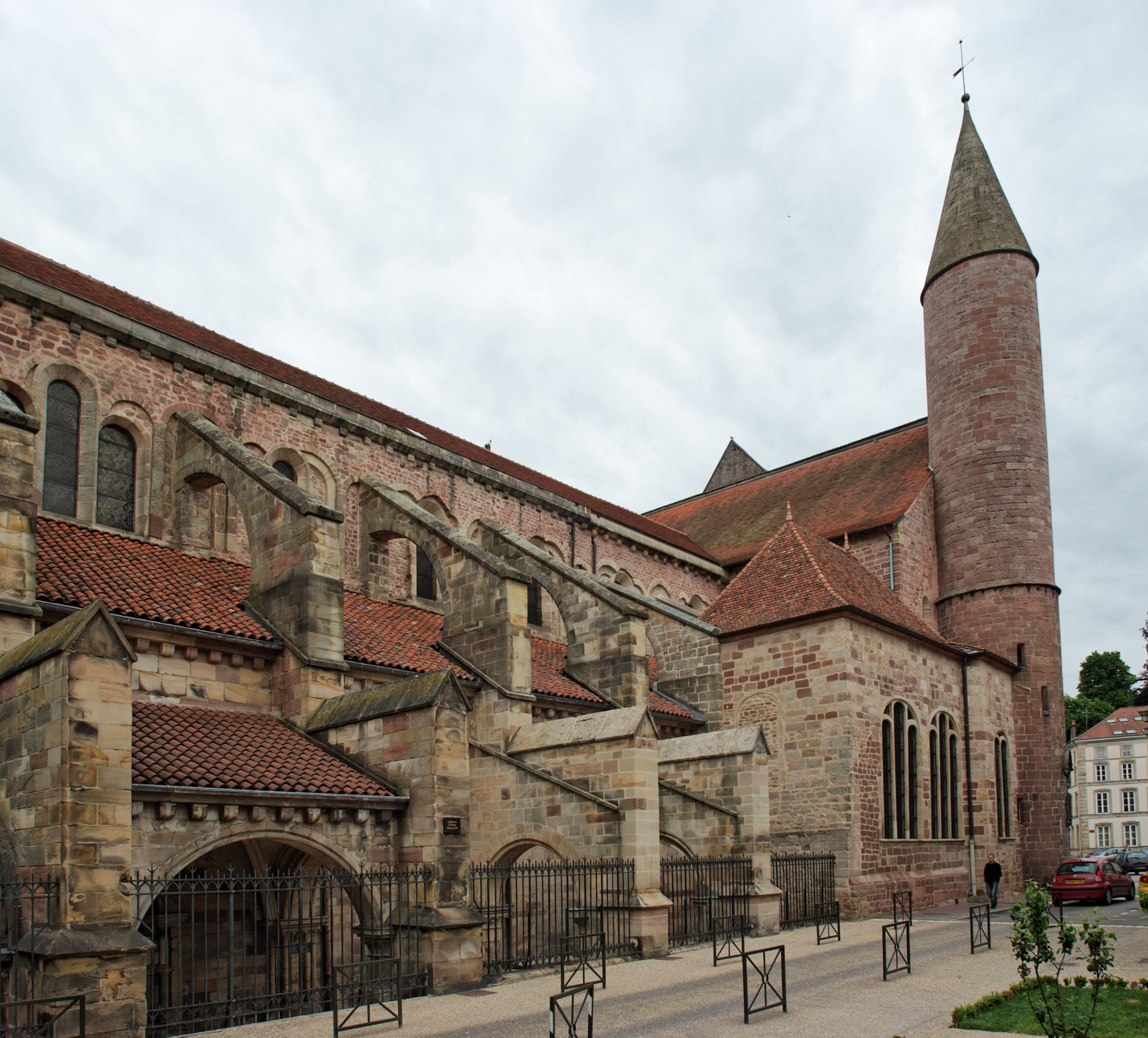 Basilique Saint-Maurice.